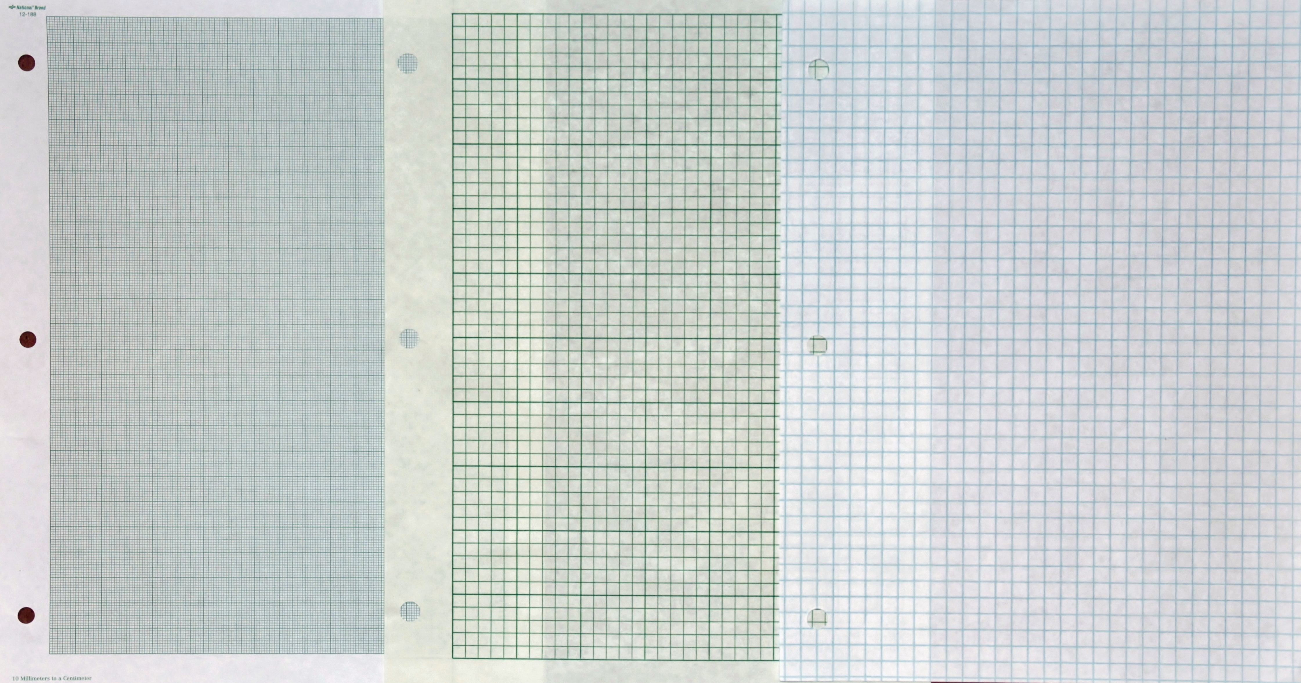 Three examples of graph paper: "millimeter paper" with 10 squares per centimeter, paper with 5 squares per inch, paper with 4 squares per inch.